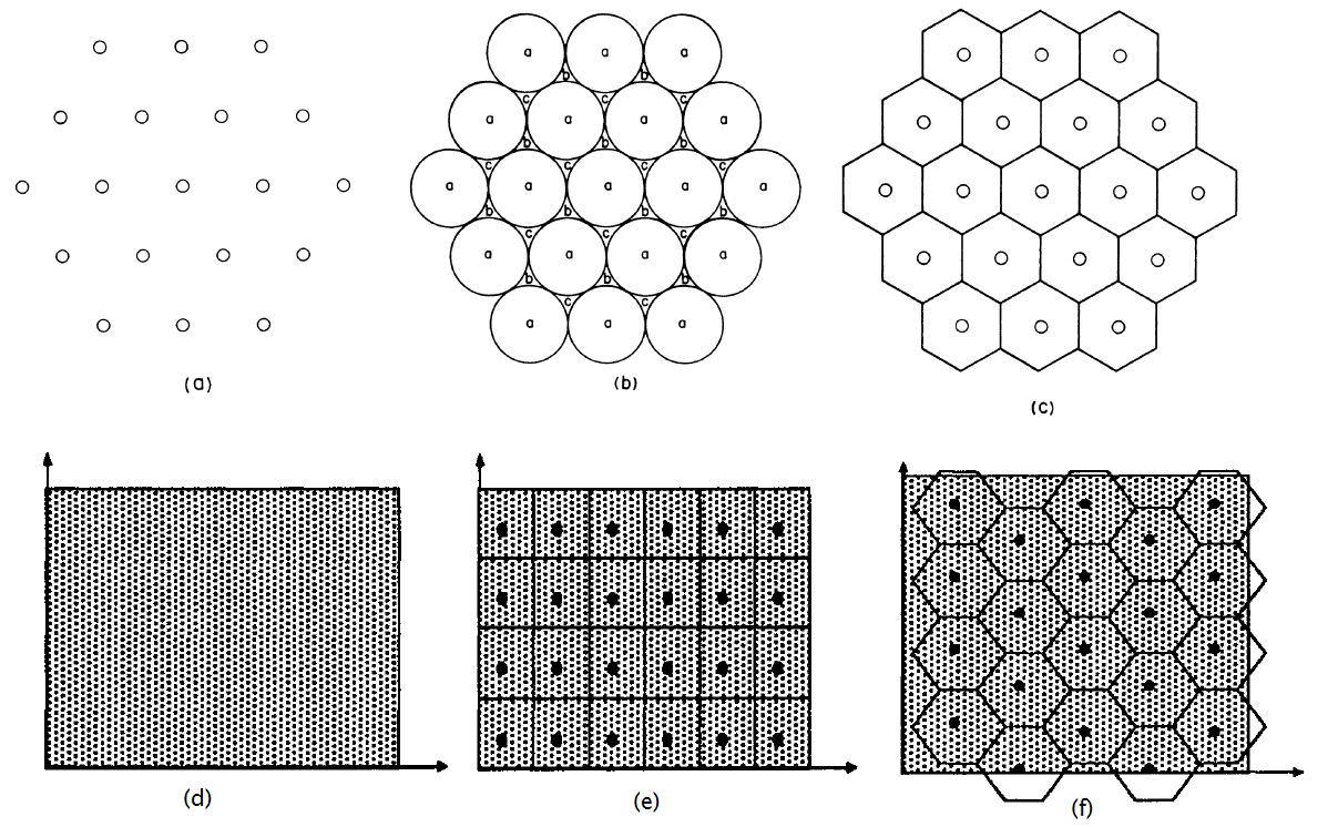 Hexagonal lattices & vector quantiztion